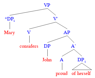 5.1 a) tree structure